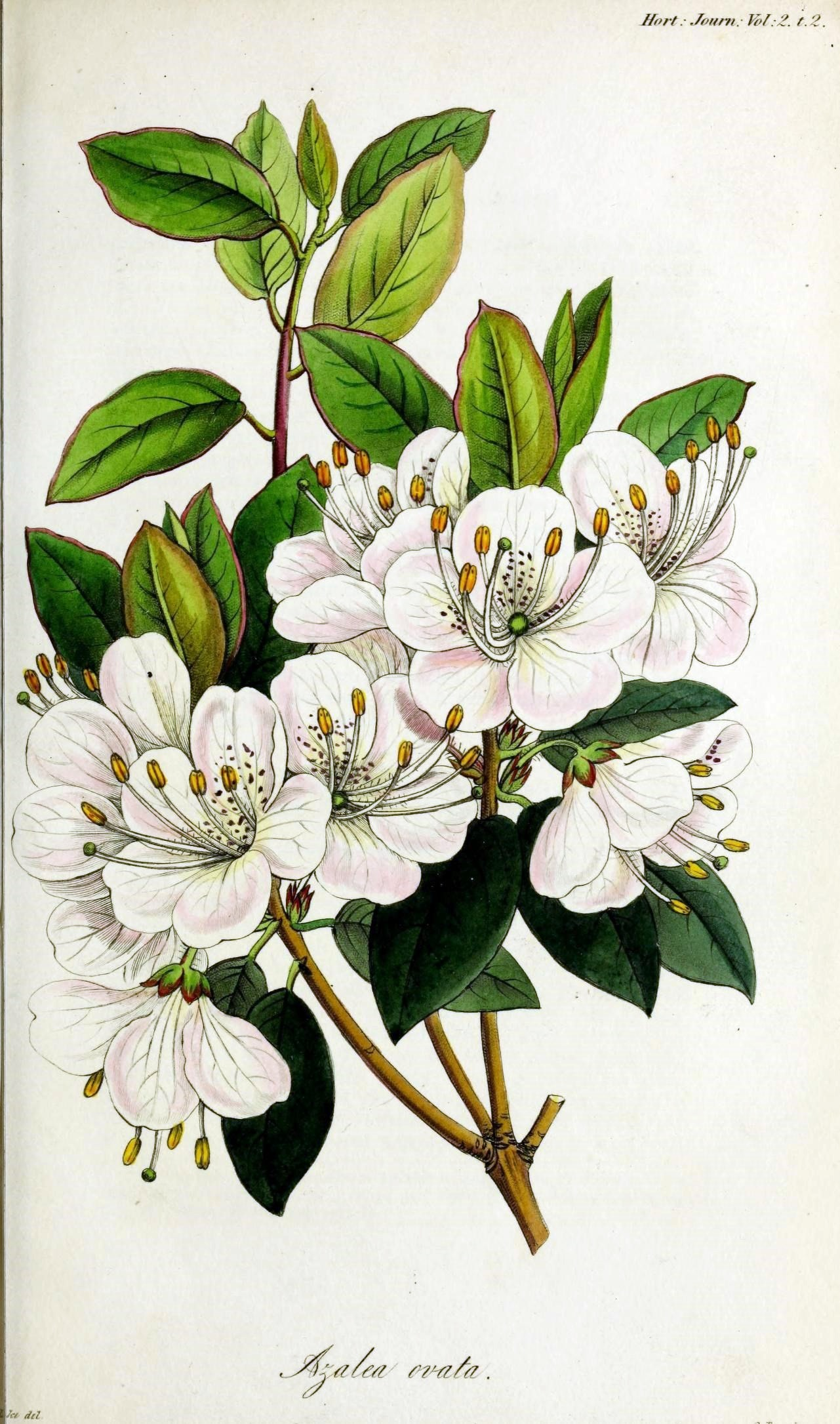 Hart: Jo urn. Jfcl:£. f. .?. fa iel